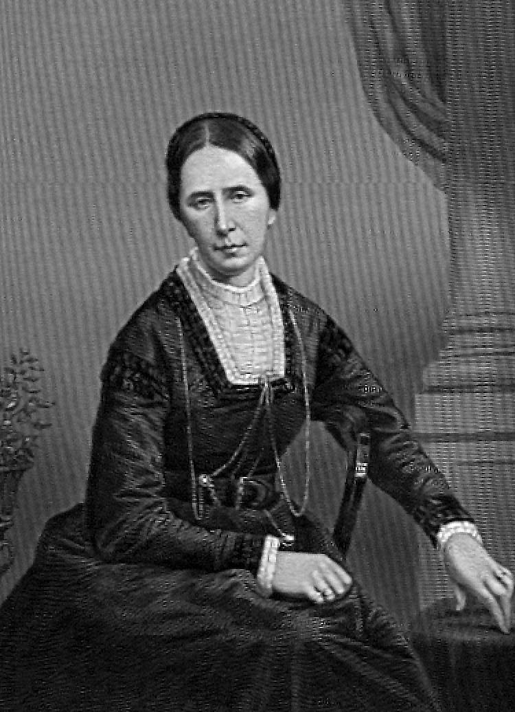 Engraving depicting a woman in a dark dress